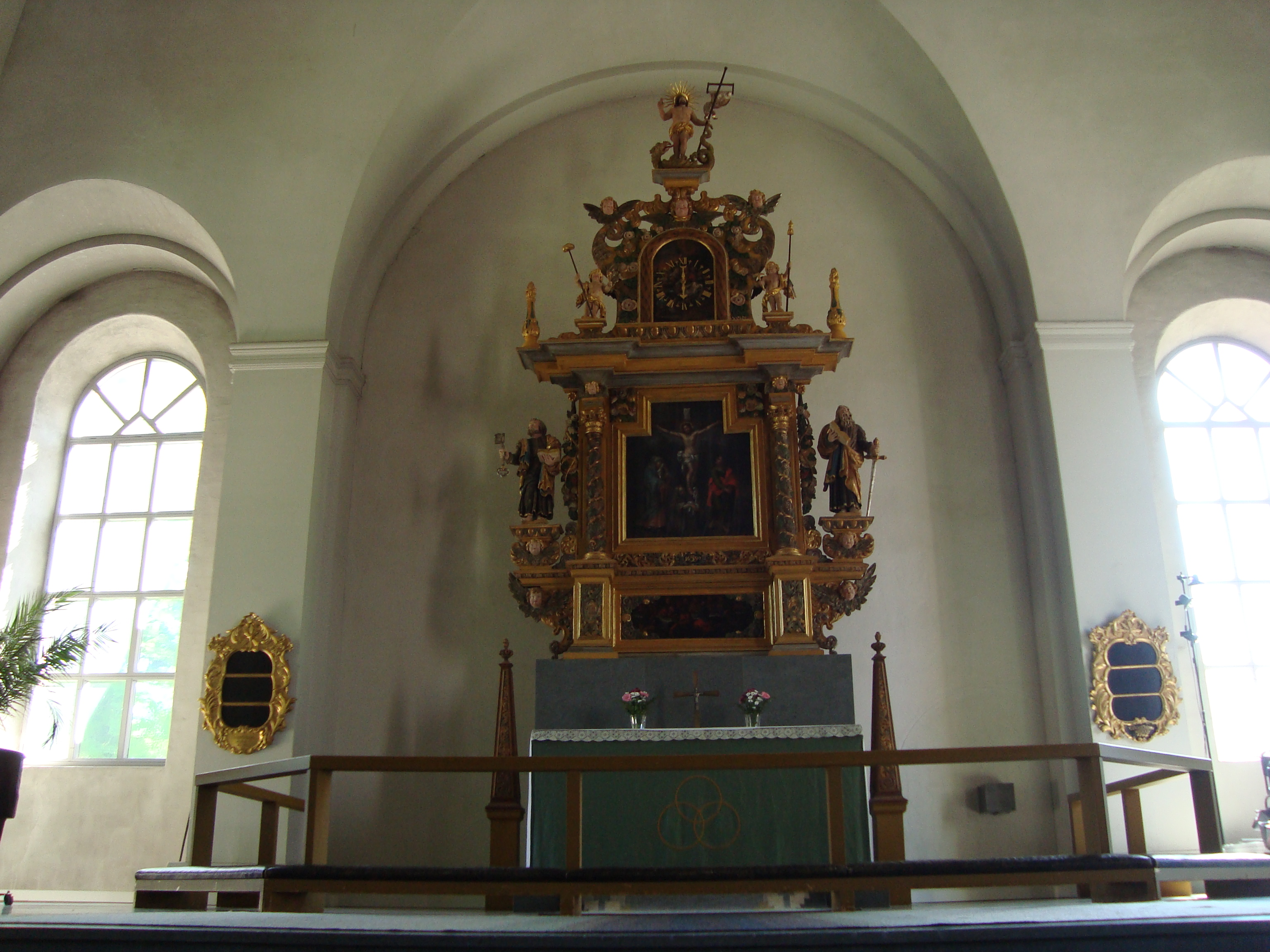 Ovansjö church, Sandviken Municipality, Sweden